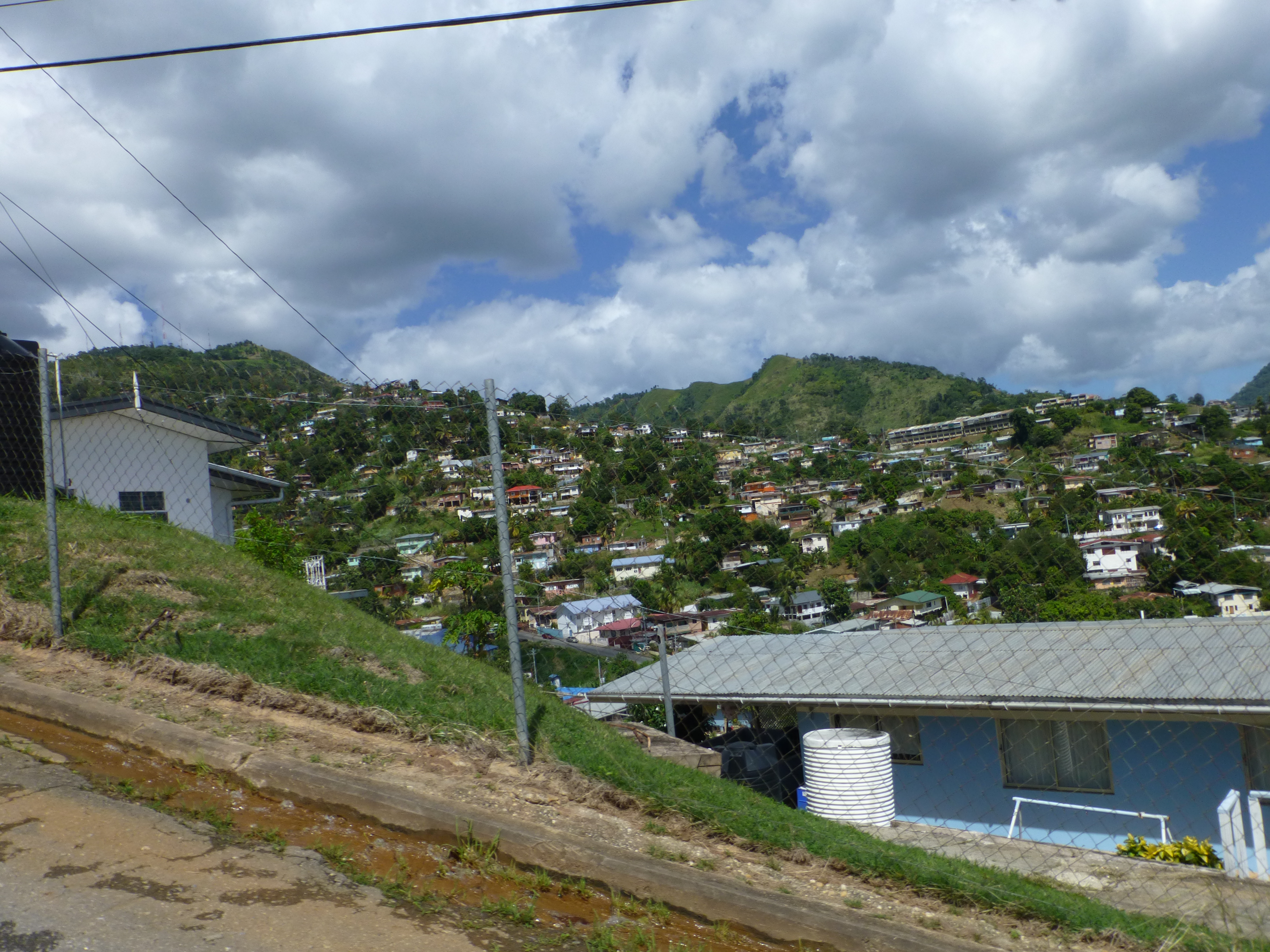 Dibe, Trinidad and Tobago. Officially part of the Diego Martin region, it is actually administered by the city of Port of Spain.